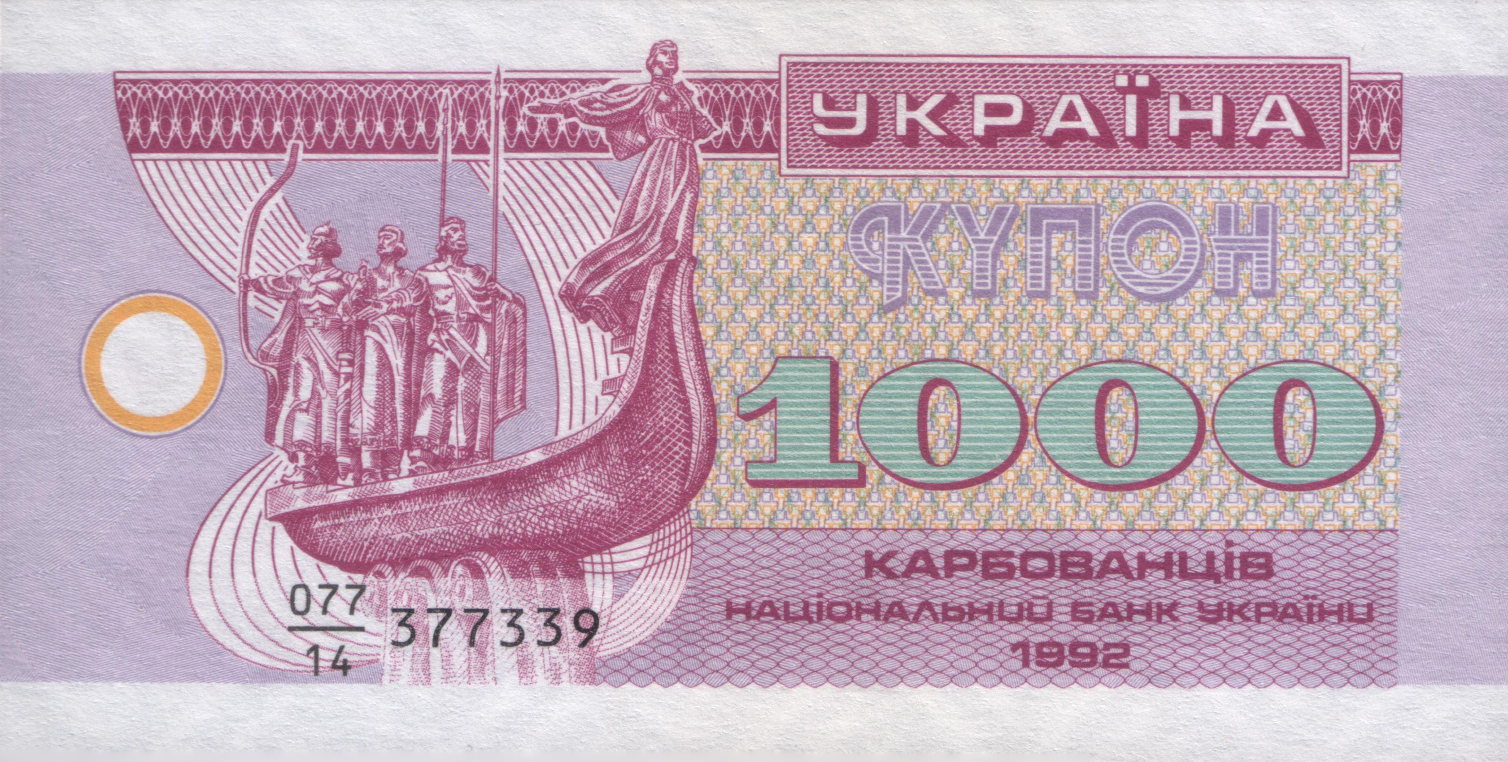 1000 karbovanets (1992)